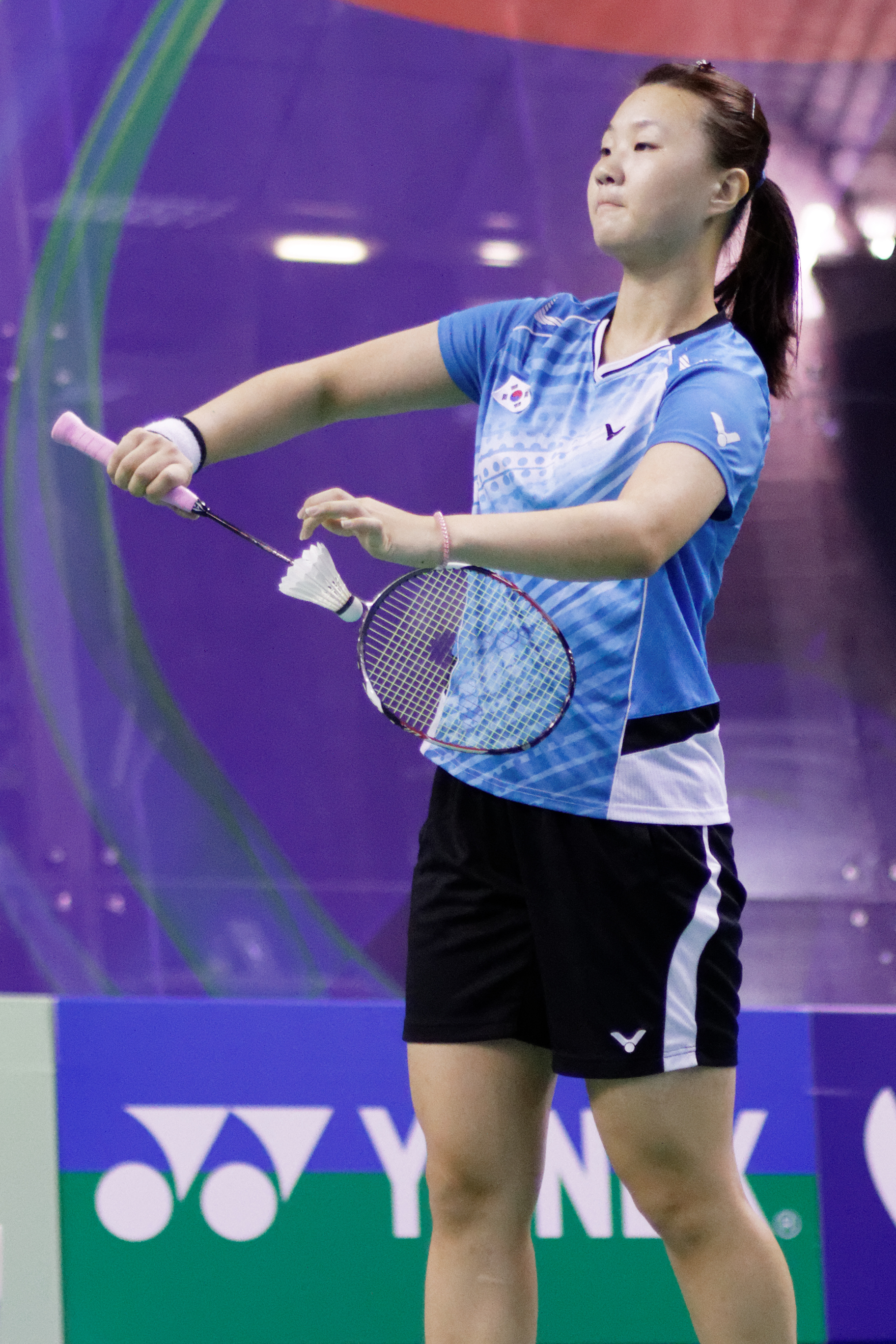 2013 French open. Mixed's doubles eightfinal. Tantowi Ahmad and Lilyana Natsir vs Lee Yong-dae and Shin Seung-chan.